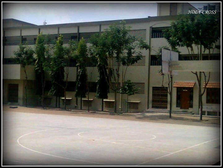 Play-field